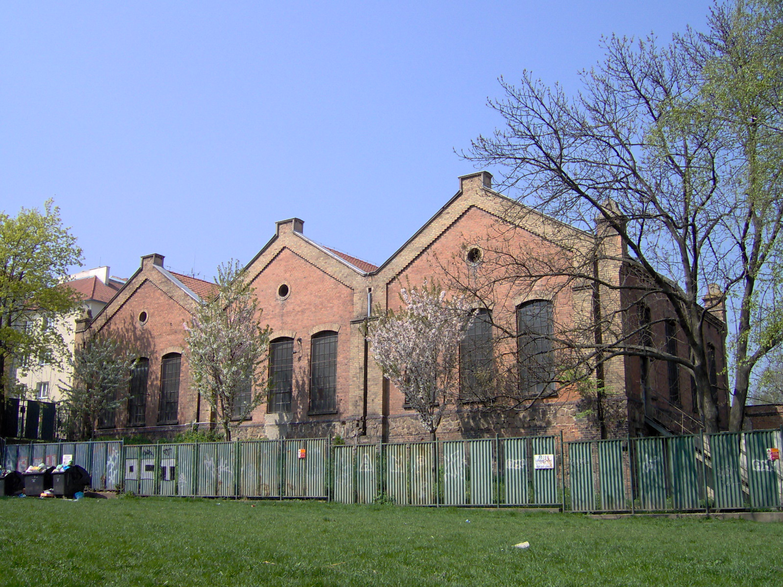 Ex-tram depot Královo Pole in Brno, now electrical substation